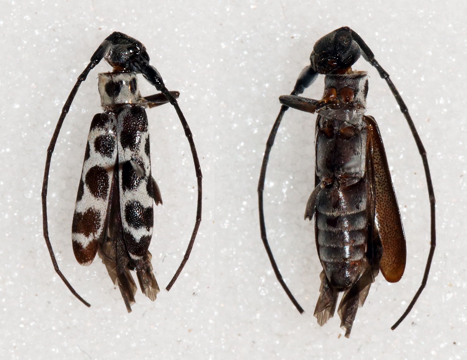 Breuning,1967 Sex: Male Data: 03-2014 - Ebogo Centre - Cameroon Size: 7mm